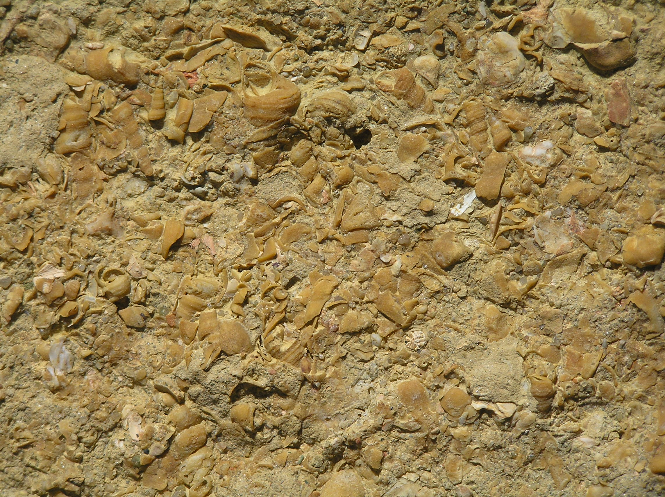 Randengrobkalk